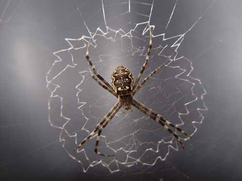 Argiope mascordi, female